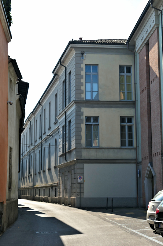 Old hospital in Crema (Italy)